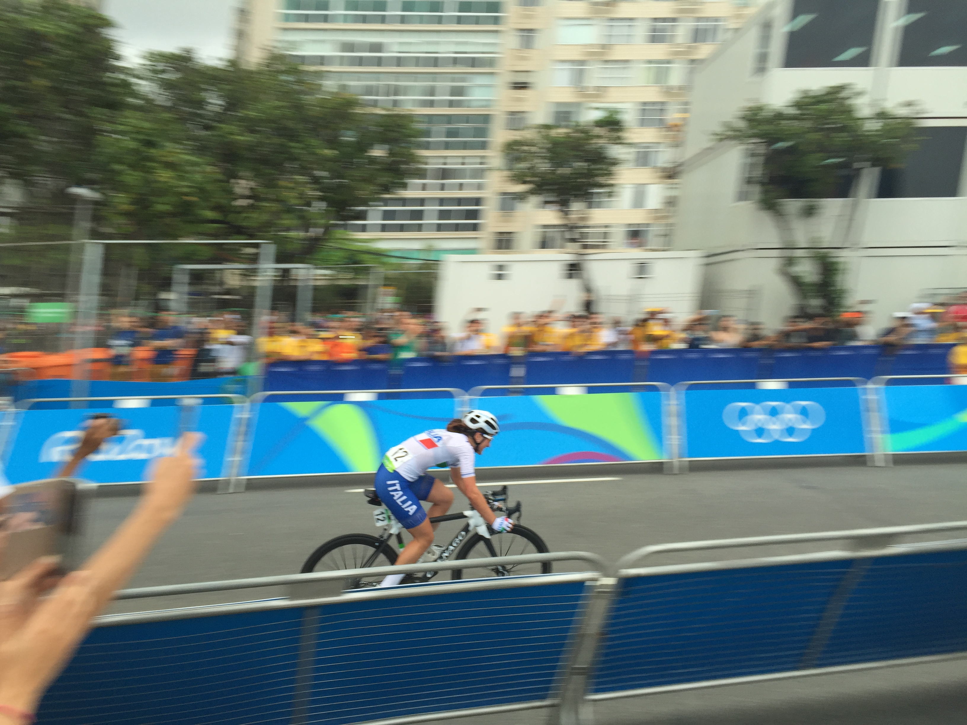 Rio 2016 - Women's road race